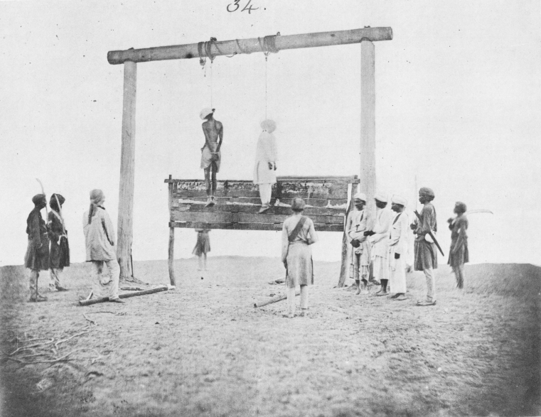 The Hanging of Two Rebels, by Felice Beato, 1858. Albumen silver print. Marshall, Peter. India - The Late 1850s, cited 6 June 2006. Siano, Brian. The Flashman Papers Project, cited 6 June 2006. University of California, Santa Cruz; University Library, Visual Resource Collection; Call Number: P371P B368N H239A, cited 6 June 2006.